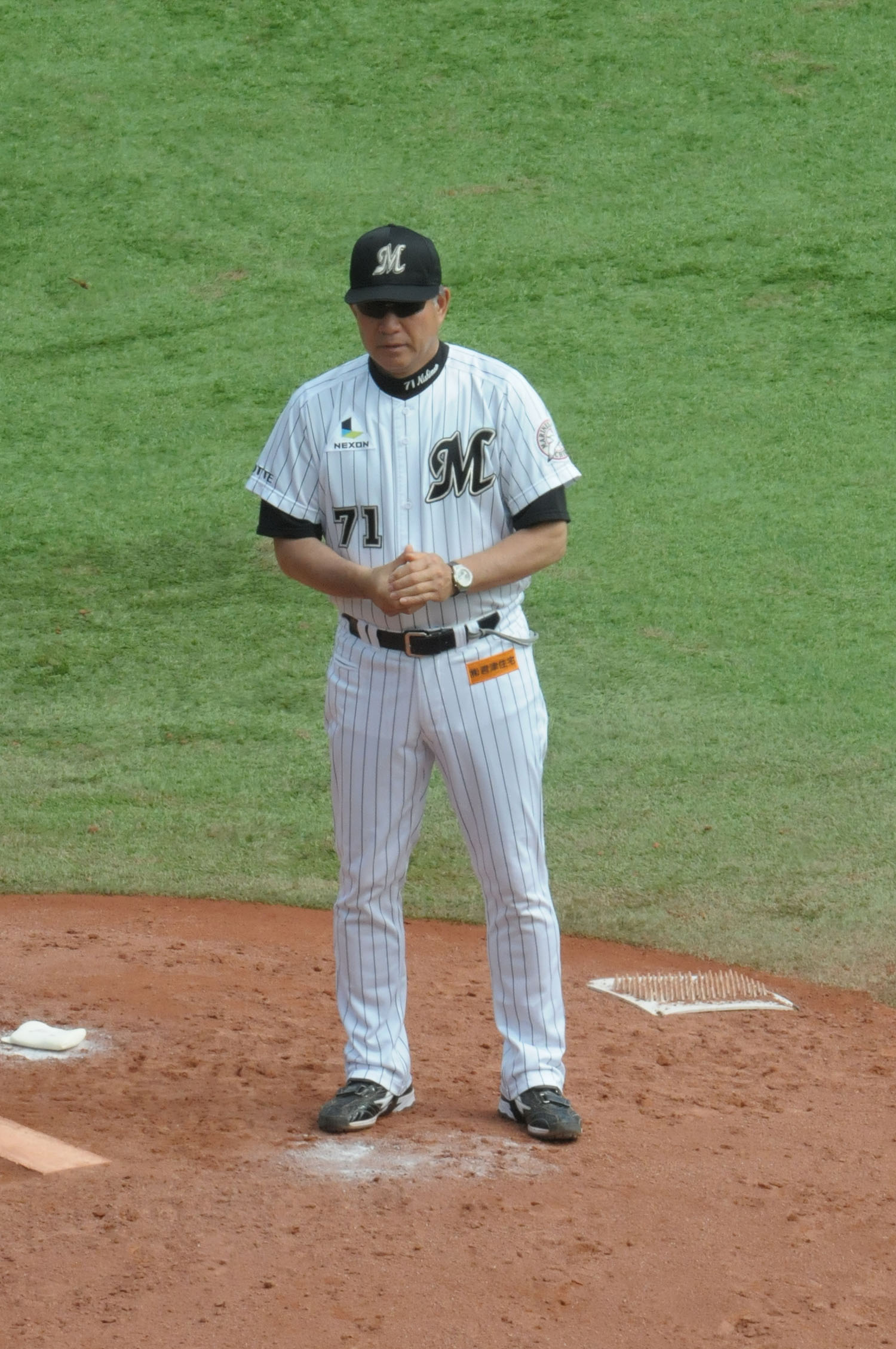 Takashi Nishimoto, coach of the Chiba Lotte Marines, at QVC Marine Field.